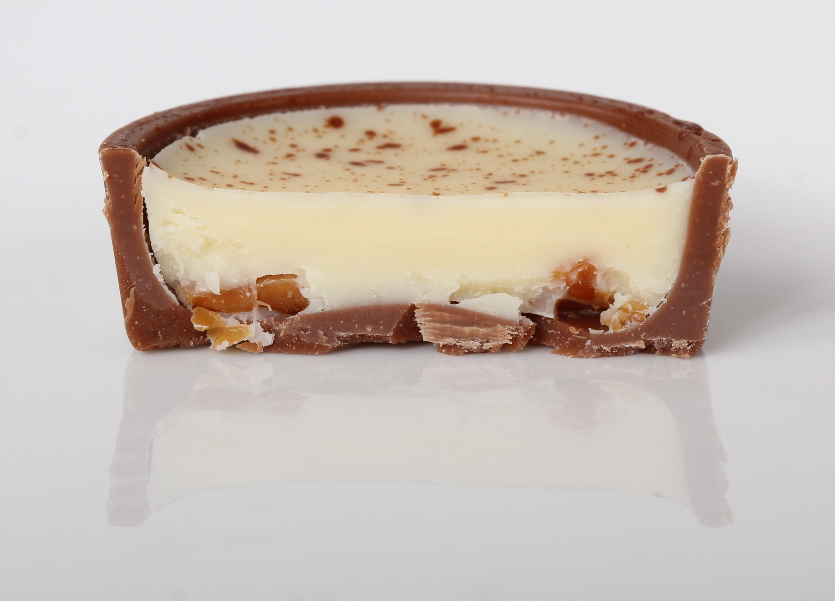 Lindt Chocolates Creme brulee Dessert Creation.